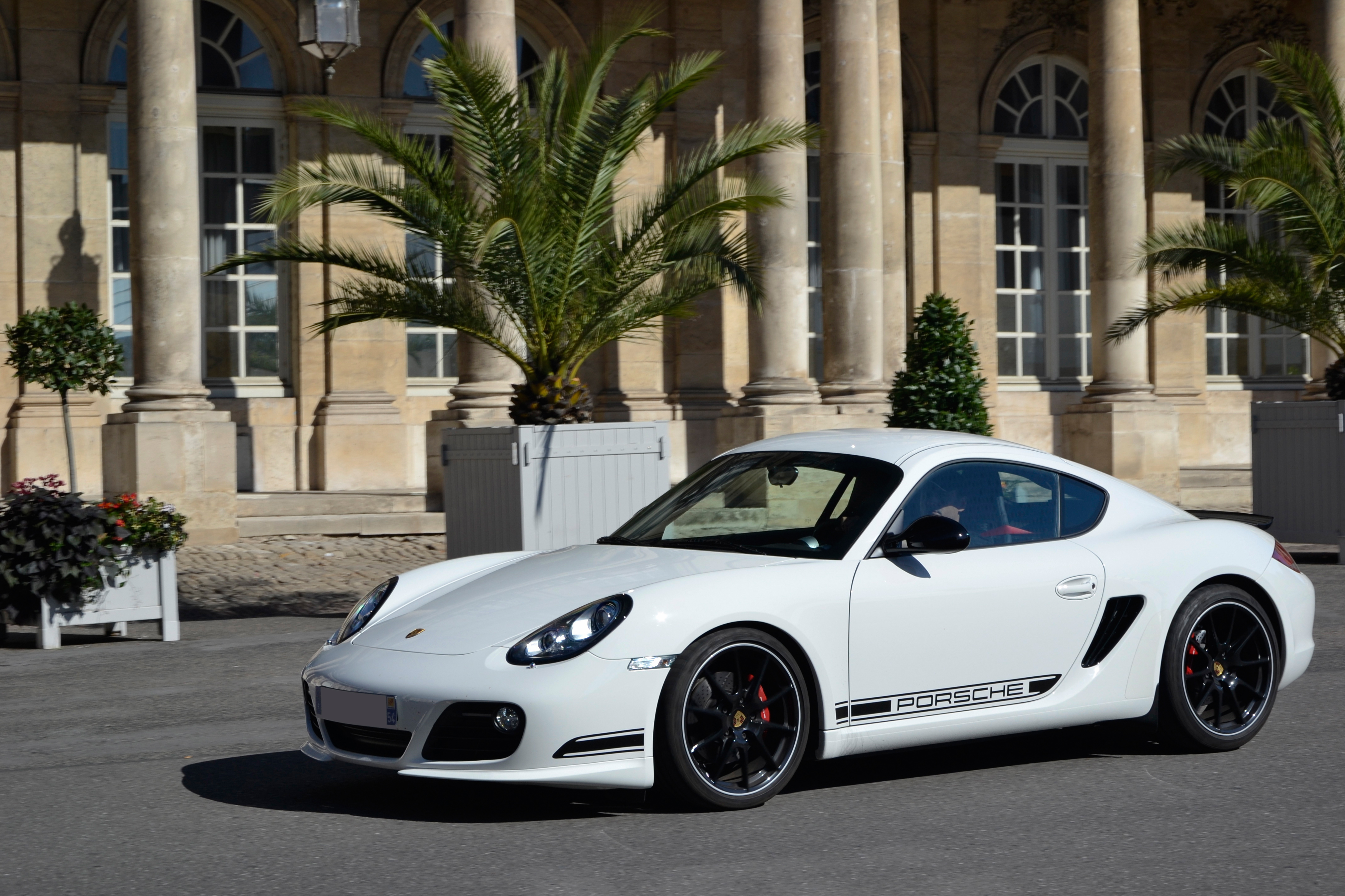 Porsche Cayman R